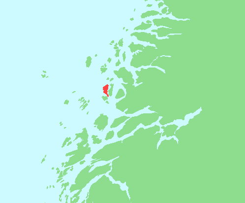 Locator map of Lurøya, Nordland, Norway